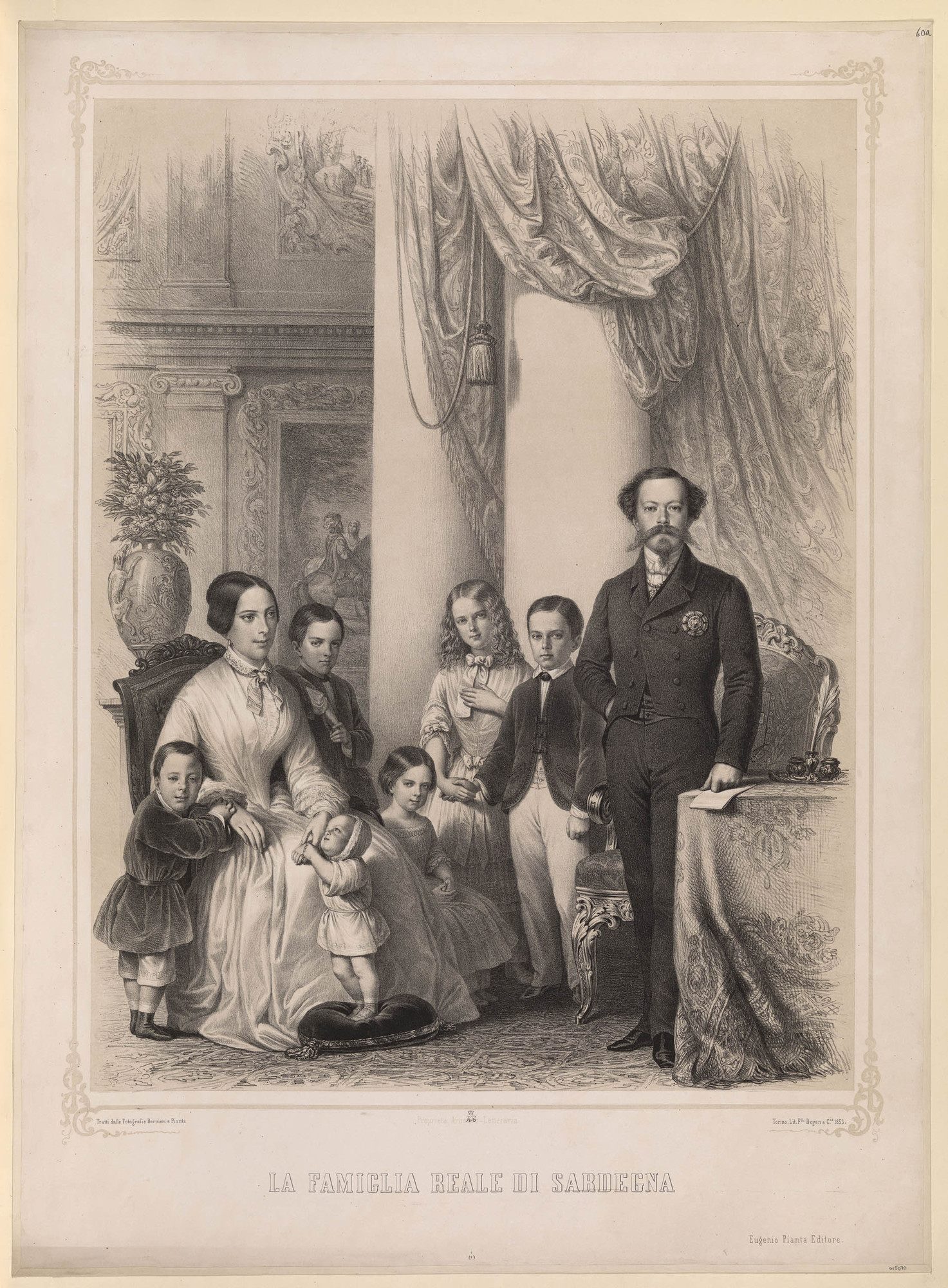 Drawing of the Family of Vittorio Emanuele II in 1854